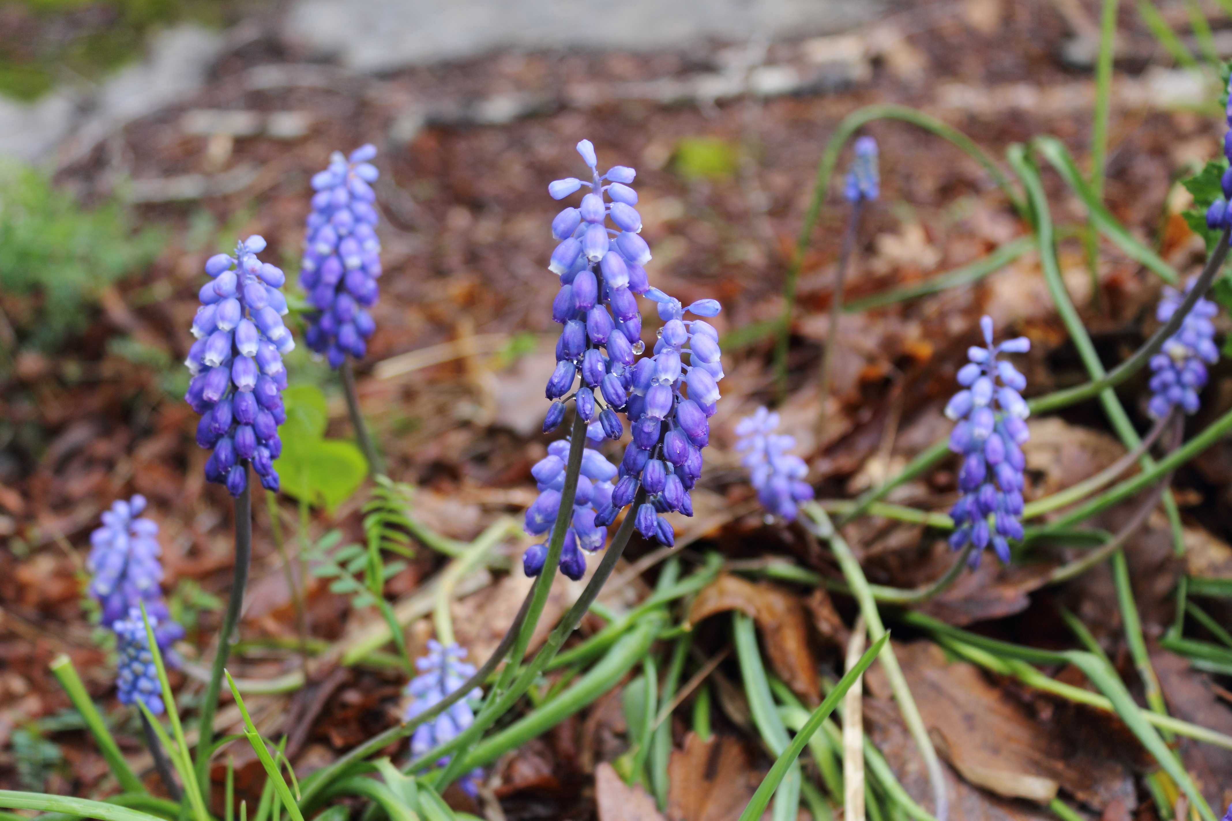 North Colchis calcareous endemic - Muscari dolichantum Woronow et Tron in the conditions of the wild nature. The picture is made in Akhtsu's gorge. Average watercourse Mzymta river in the territory of Sochi National Park, Adlersky District, Sochi, Krasnodar Krai. It is included in the Red List.